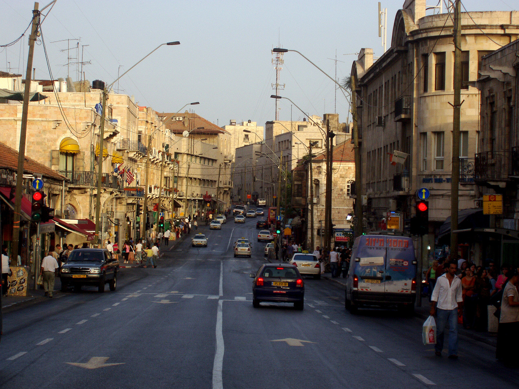 Jaffo street in Jerusalem, Israel. City center.